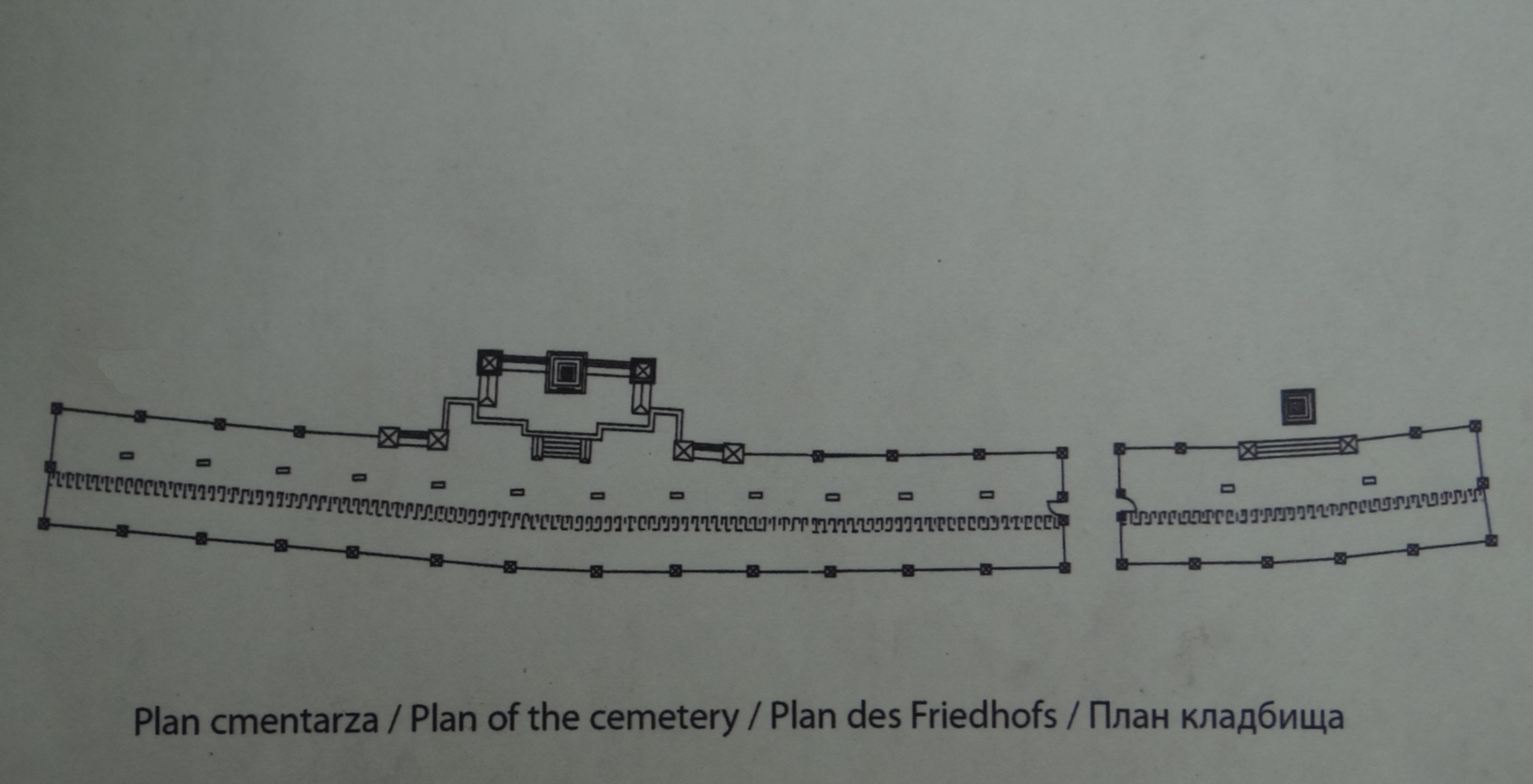 World War I Cemetery nr 136 - Zborowice